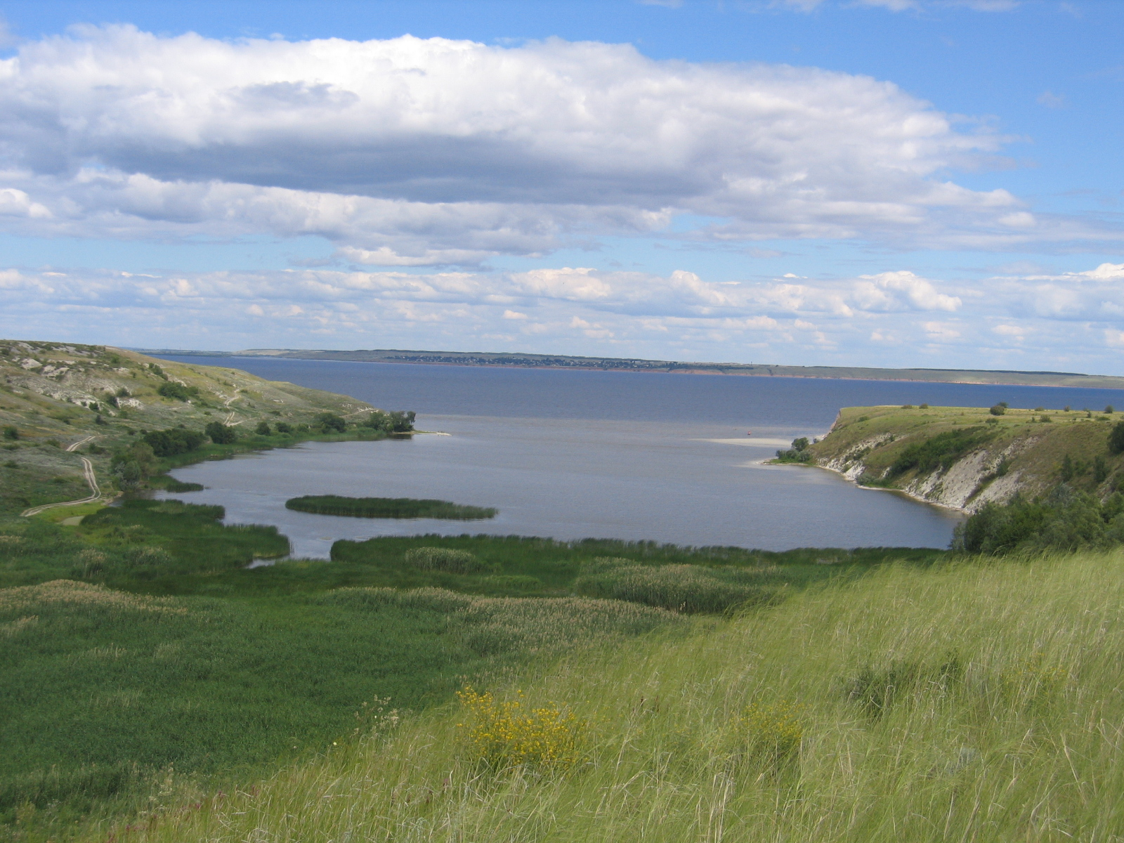 Danilov Bay (on the Volga). Nature Park Shcherbakovskaya, Kamyshin district of the Volgograd Region.